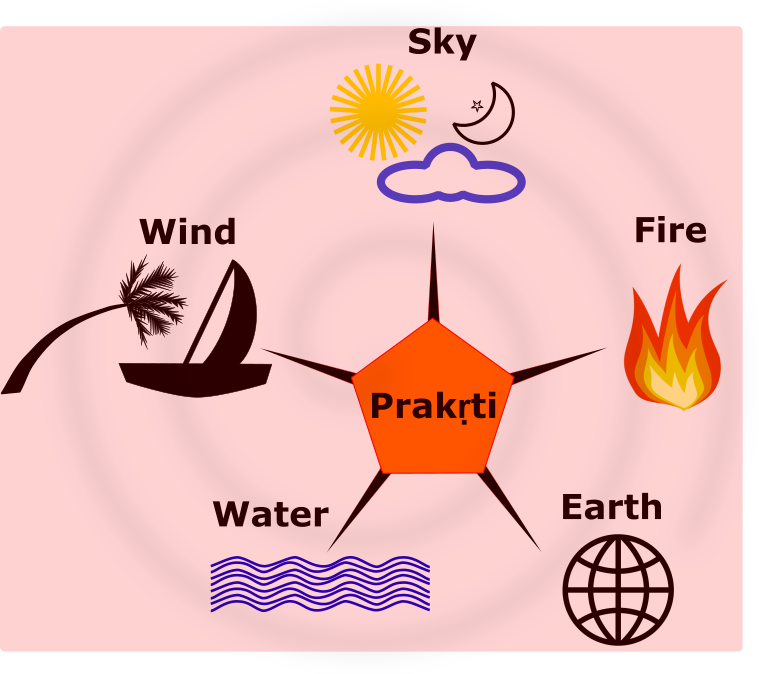 Prakrti is the source of the five great elements; Earth, Water, Fire, Air and Ether which are known as Panchabhutas/Panchamahabhutas. These five great elements comprise all material objects and the bodies of plants, trees, insects, animals, and human beings. All beings in the world are the products of the union of Atman (or Purusha of Sankhya philosophy) and Prakriti.